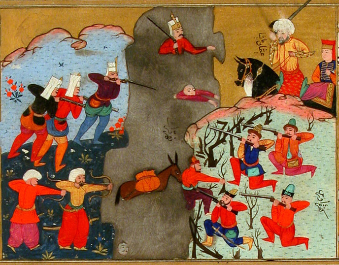 The rus attak ottomans as they cross Terek